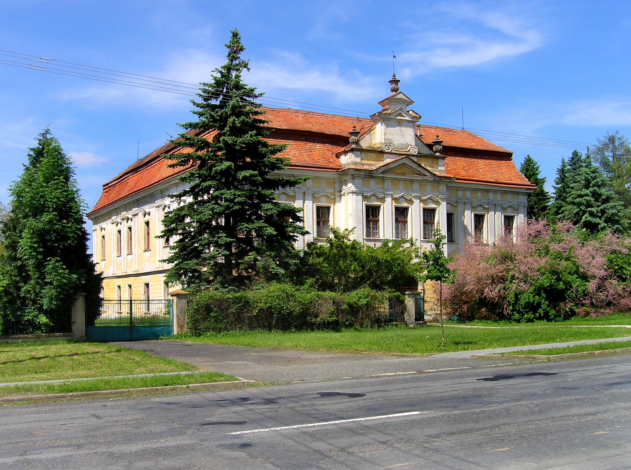 Cetechovice castle in Cetechovice village, Czech Republic